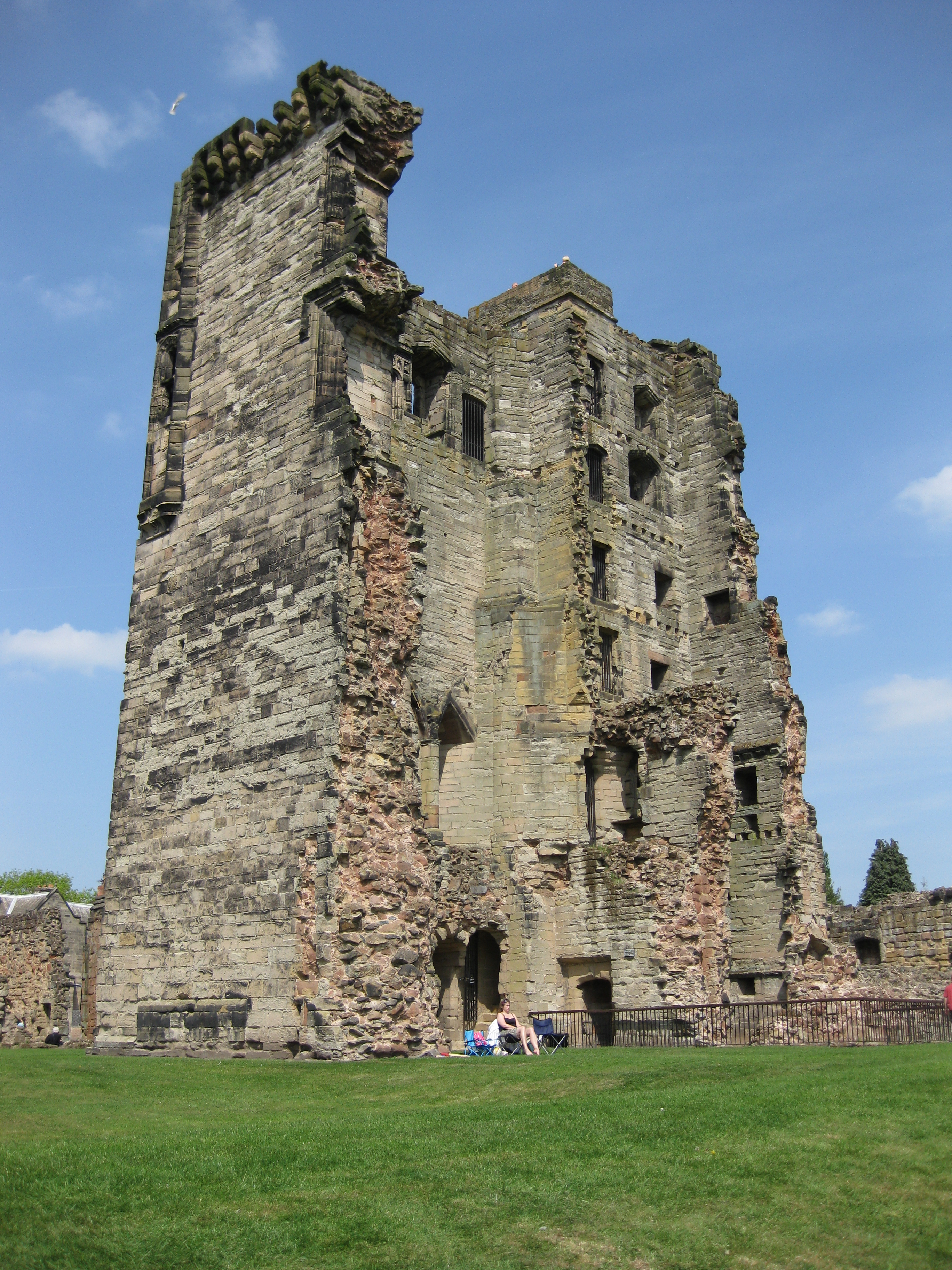 a view of Hastings tower at Ashby de la zouch castle